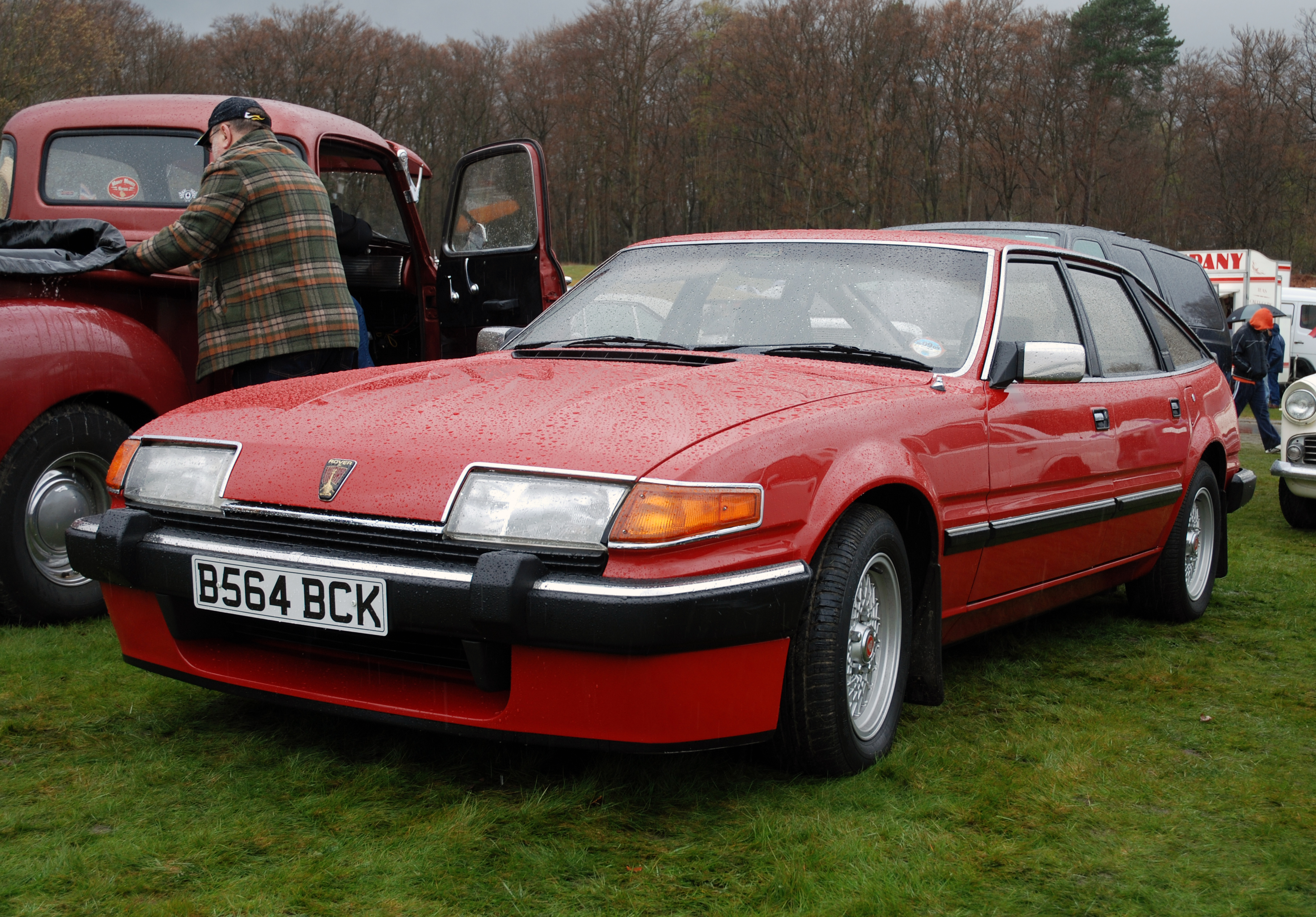 Wheels Day,Apr 2009